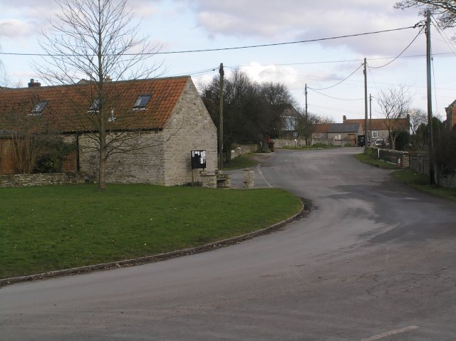 Great Edstone. Small village on a hill near Kirkbymoorside.